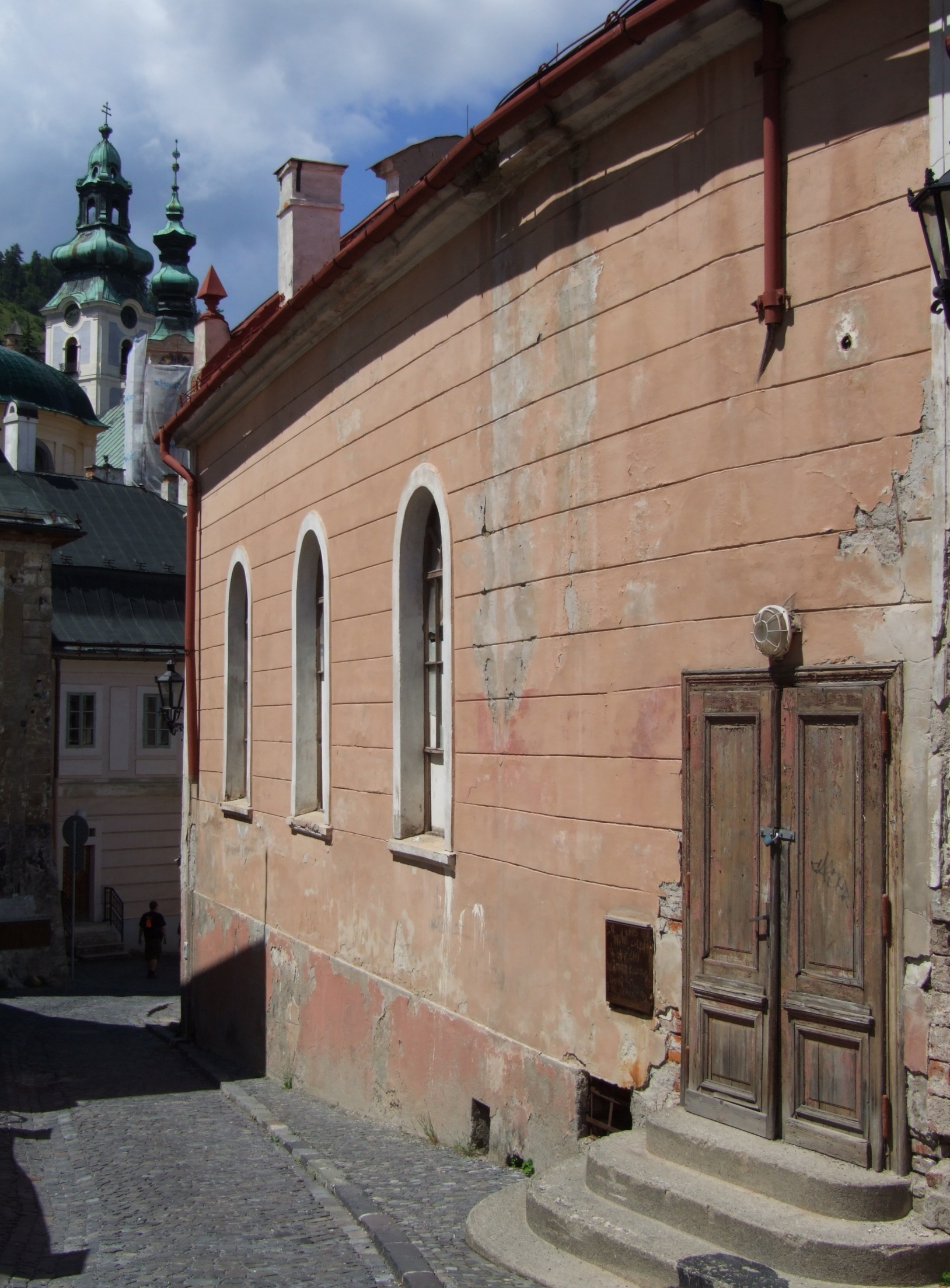 Banská Štiavnica (Schemnitz, Selmecbánya) - old synagogue